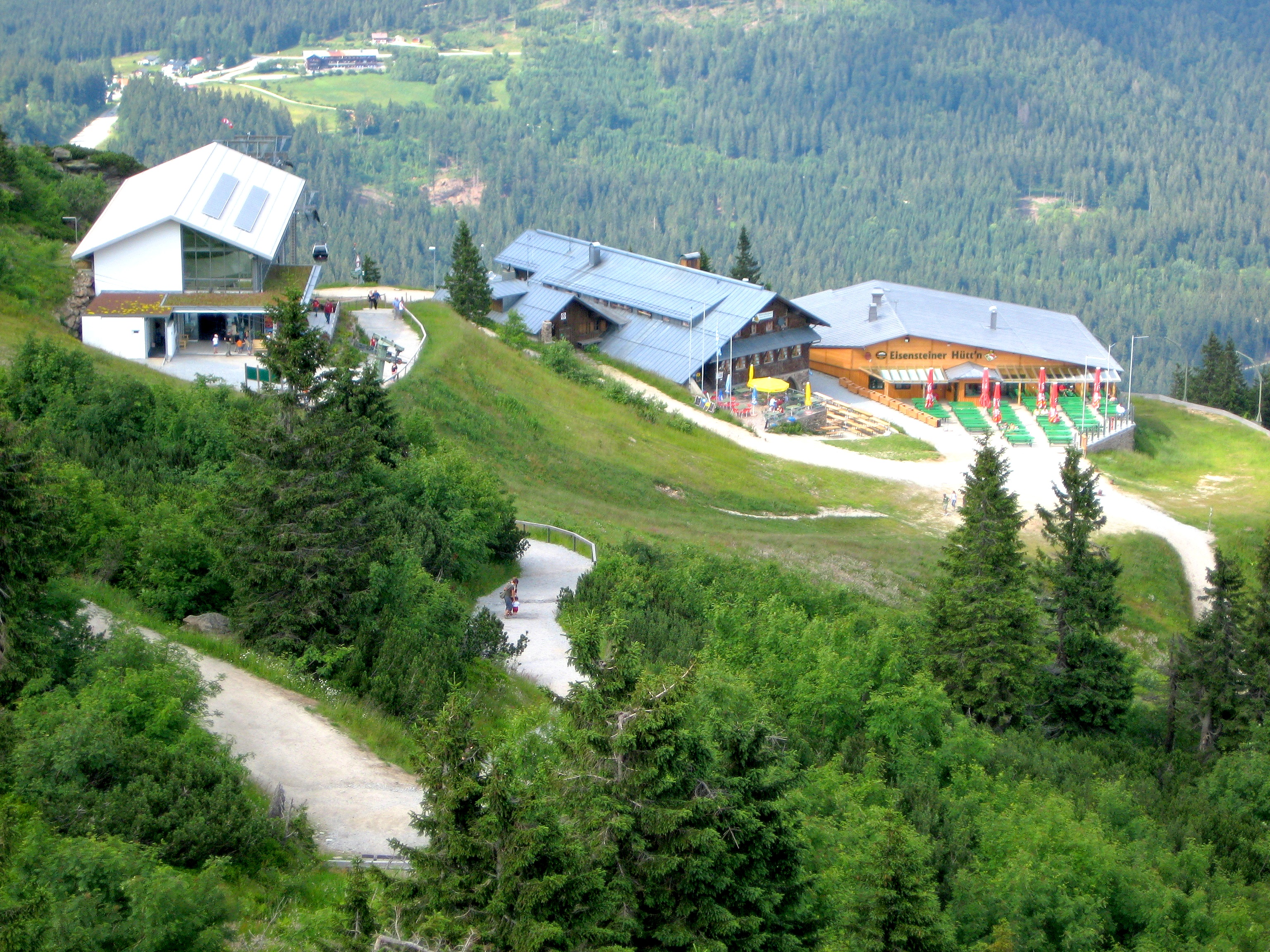 Summit station of the aerial tramway at the Großer Arber